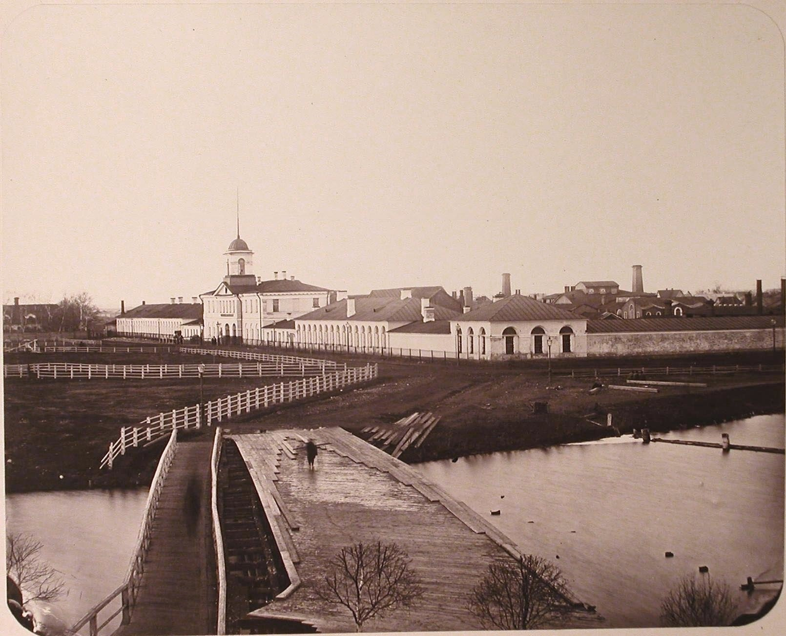 Kolpino (Russia),Izhorsky Zavod